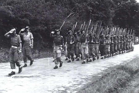 2/12th Commando Squadron (Australia) takes part in the victory celebrations at the end of World War II. At the end of the war they were attached to Kuching Force and sent to Sarawak.